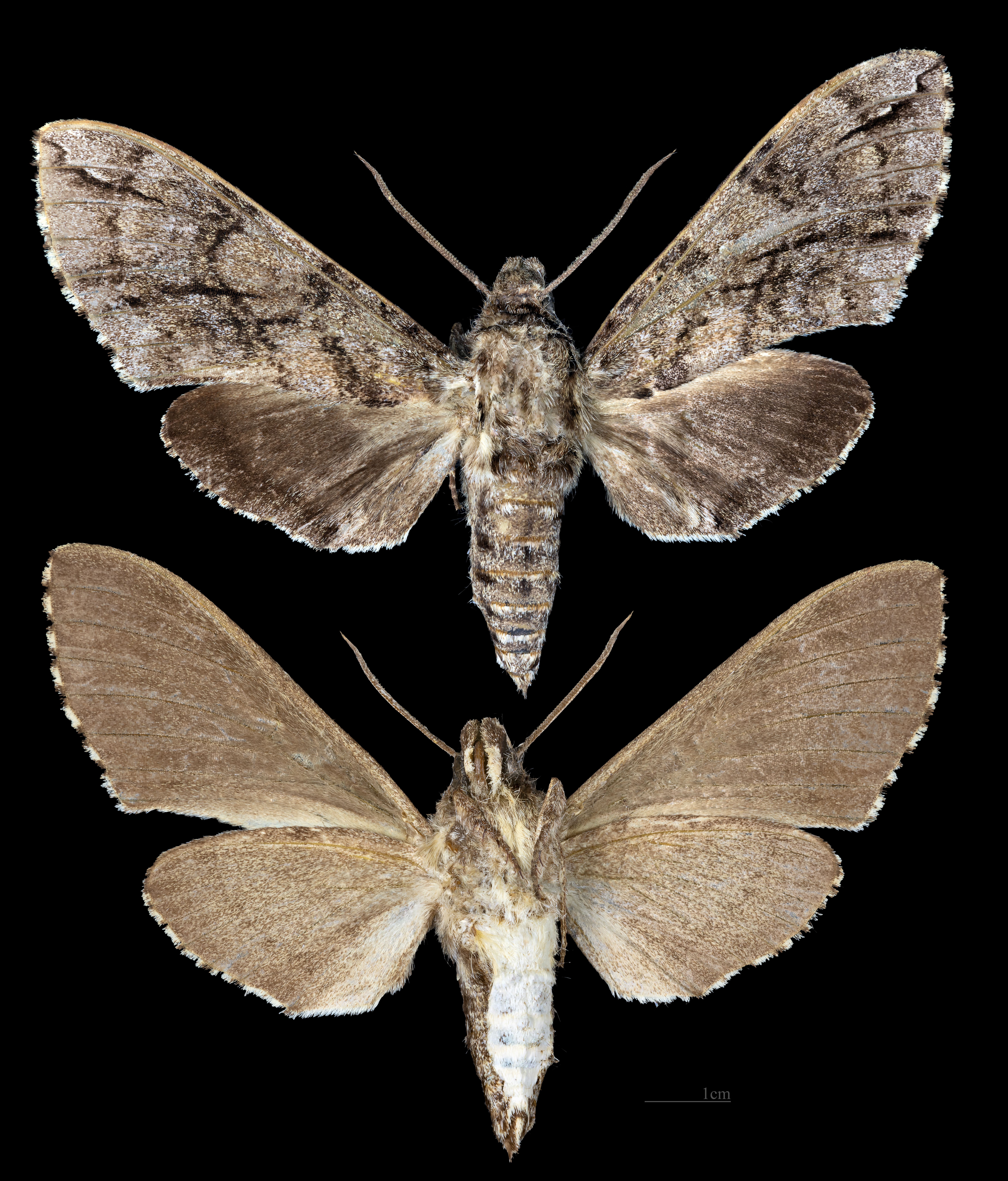 Ceratomia igualana - Two views of same specimen Collection of the Mathematician Laurent Schwartz